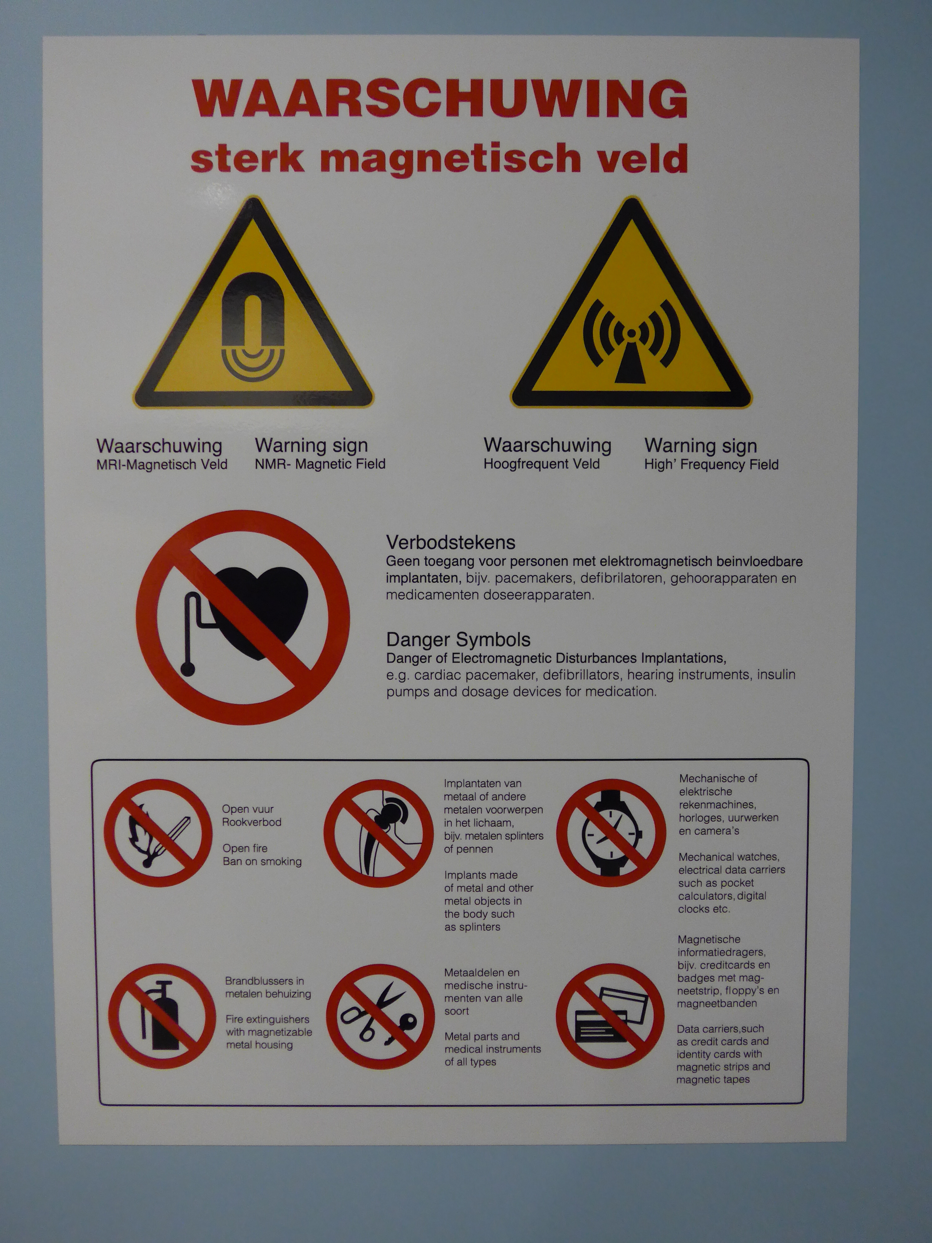 Warning sign near an MRI scanner at the UMCG in the Dutch city of Groningen.